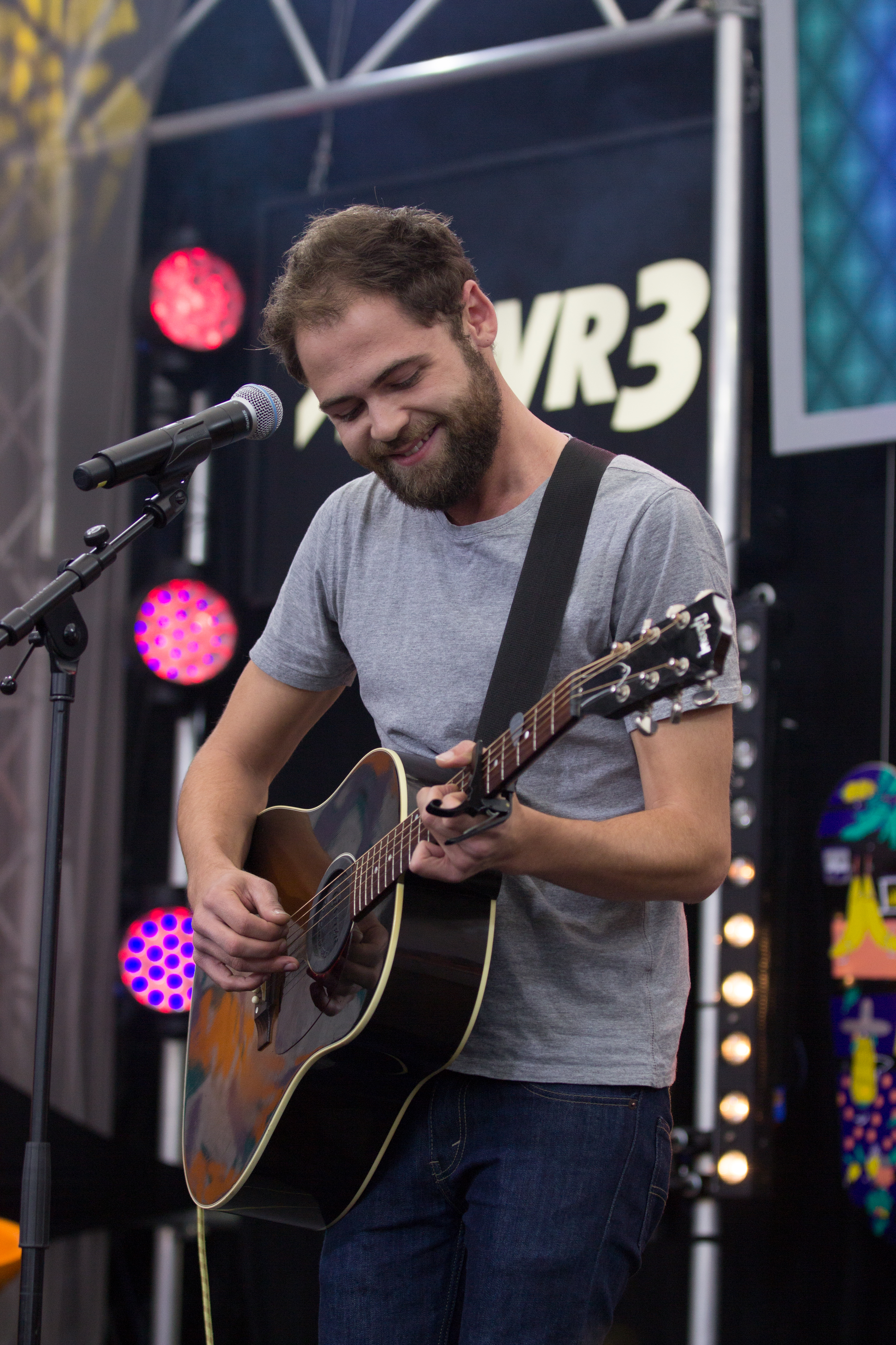 Mike Rosenberg alias Passenger at the SWR3 New Pop Festival in Baden-Baden 2013 Festivalsommer This photo was created with the support of donations to Wikimedia Deutschland in the context of the CPB project "Festival Summer".